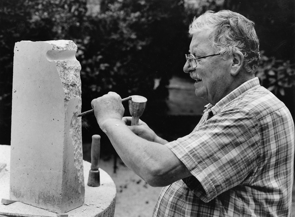 Reinhold Georg Müller